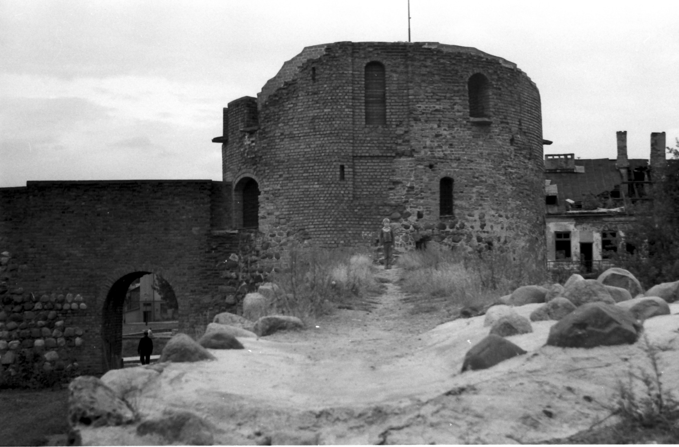 Kaunas Castle, 1984, Lithuania.